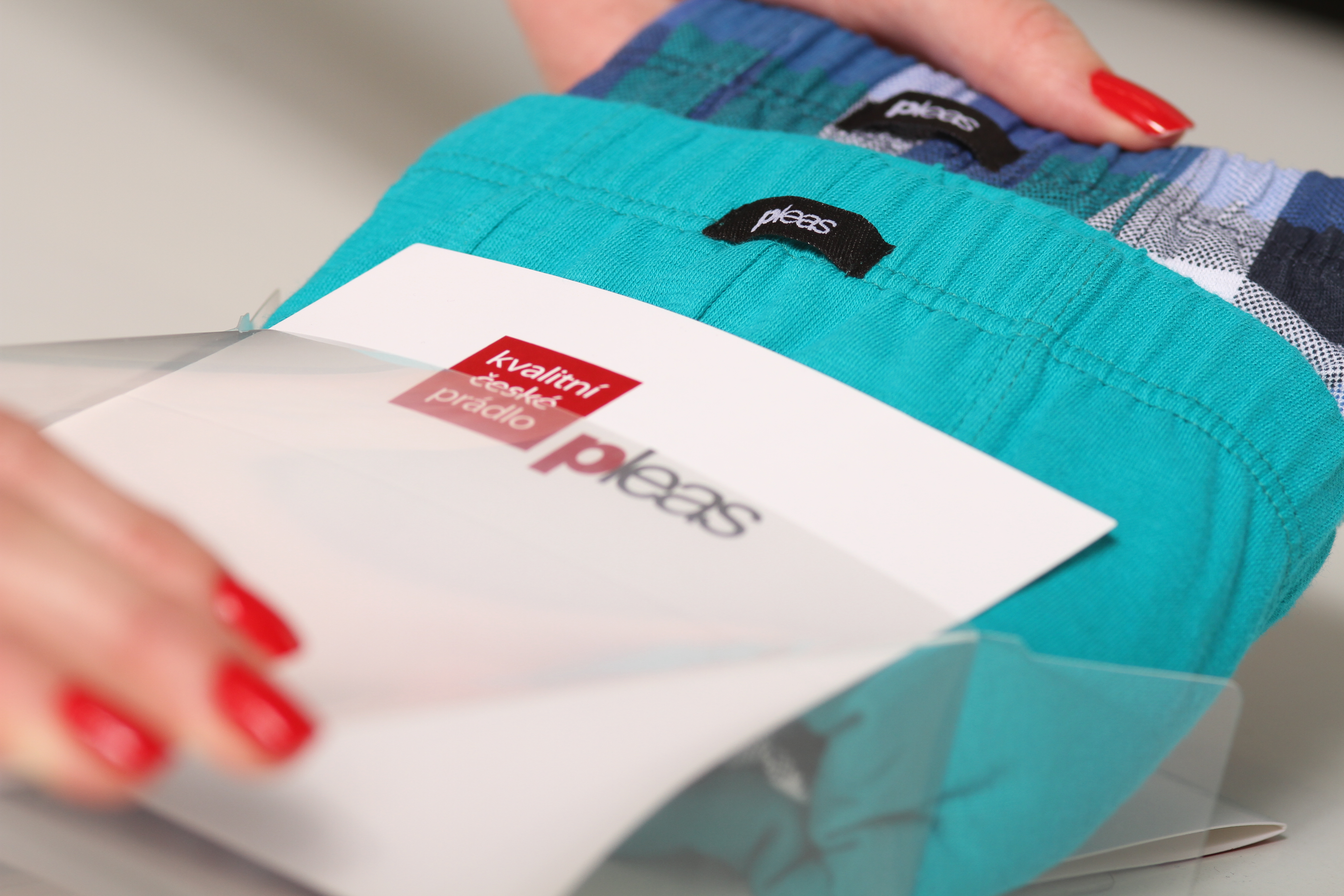 Pleas_product